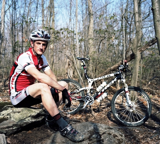 Photo of Jeff Schalk in the Frederick Municipal Forest, taken by Jay Divinagracia.